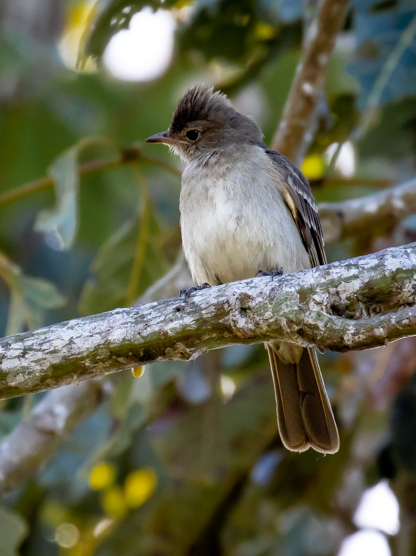 Brownish elaenia, Iranduba, Amazonas, Brazil